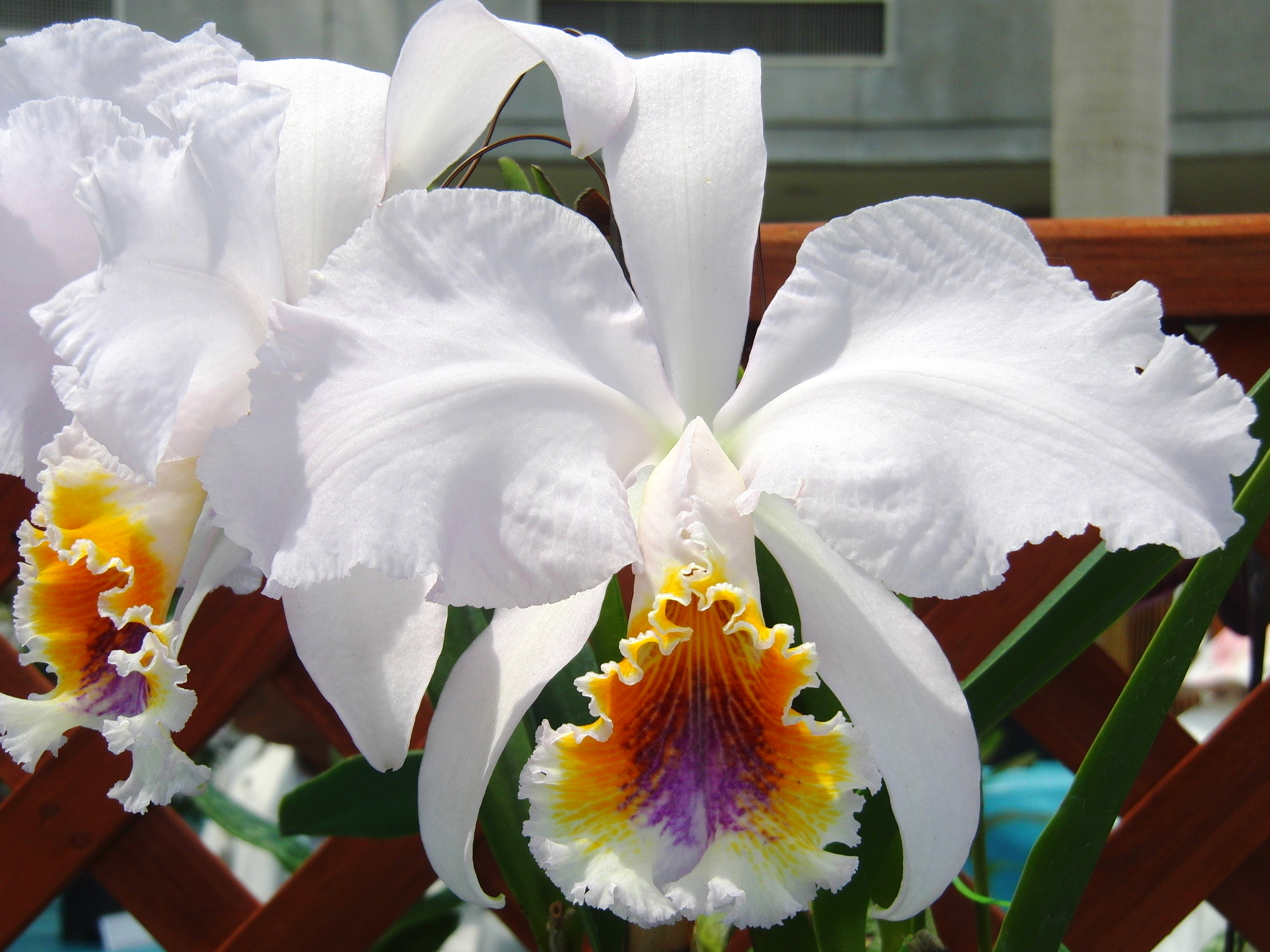 Cattleya mossiae forma coerulea 'Grito' NS (182 X 150mm) 1 stem 3 flowers. World Orchid 2013 in Romantic Village, Utsunomiya Tochigi Japan.